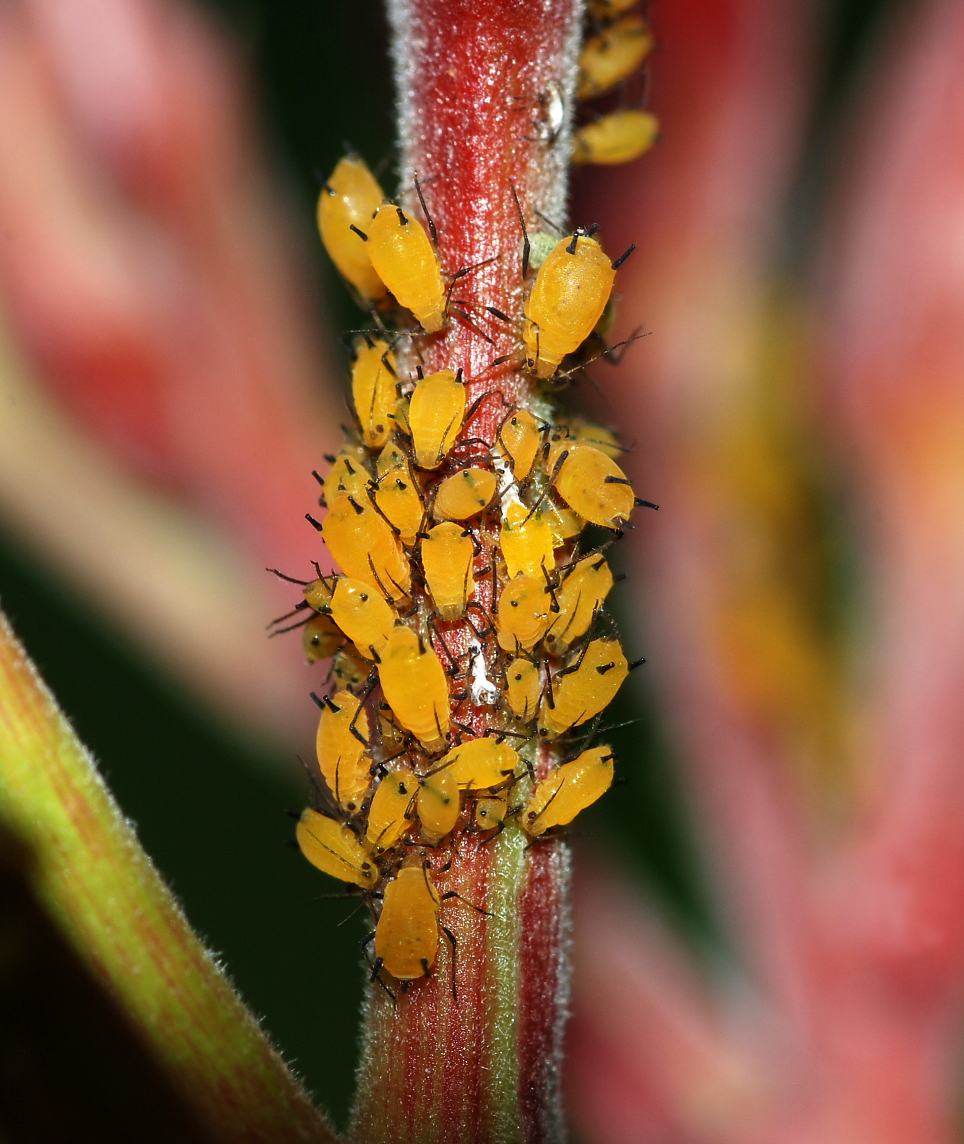 Oleander aphids (Aphis nerii).